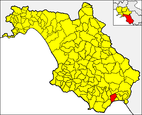 Locator map of the municipality of Santa Marina (red) within the Province of Salerno